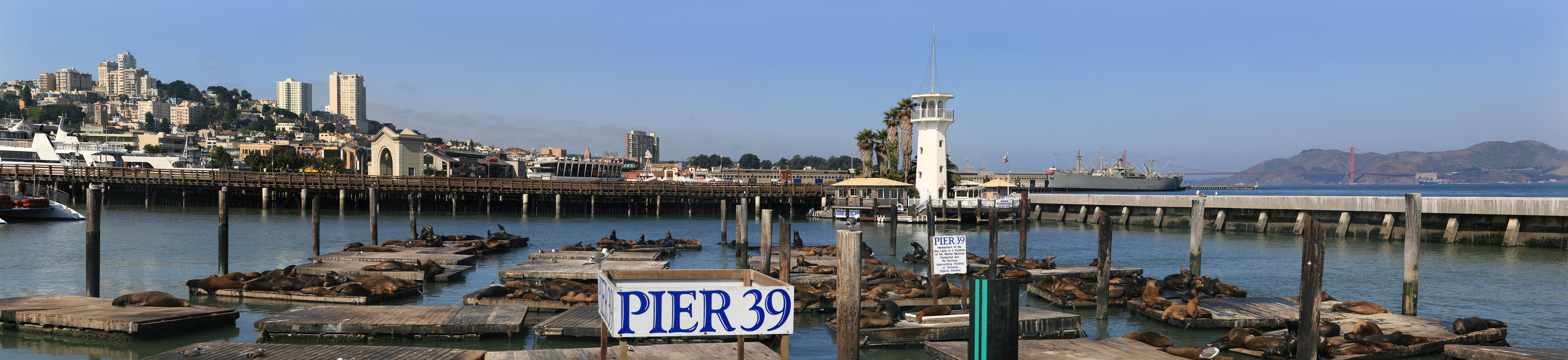 California Sea Lions at Pier 39